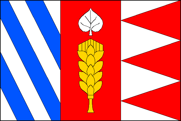 Municipal flag of Stratov , District Nymburk, Czech republic